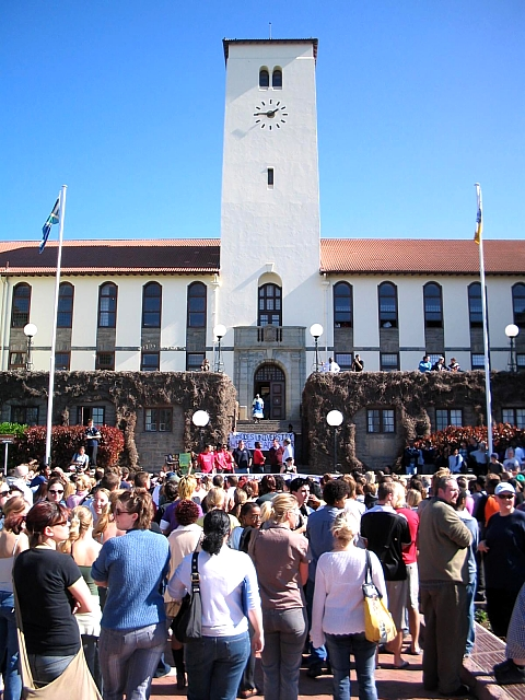 The Herbert Baker clocktower at Rhodes University. The picture was taken at an anti-rape march during 2004.